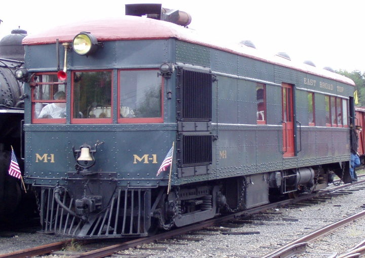 East Broad Top Doodlebug (rail car) M-1. Photo taken October 8, 2005 by Evan Jennings.